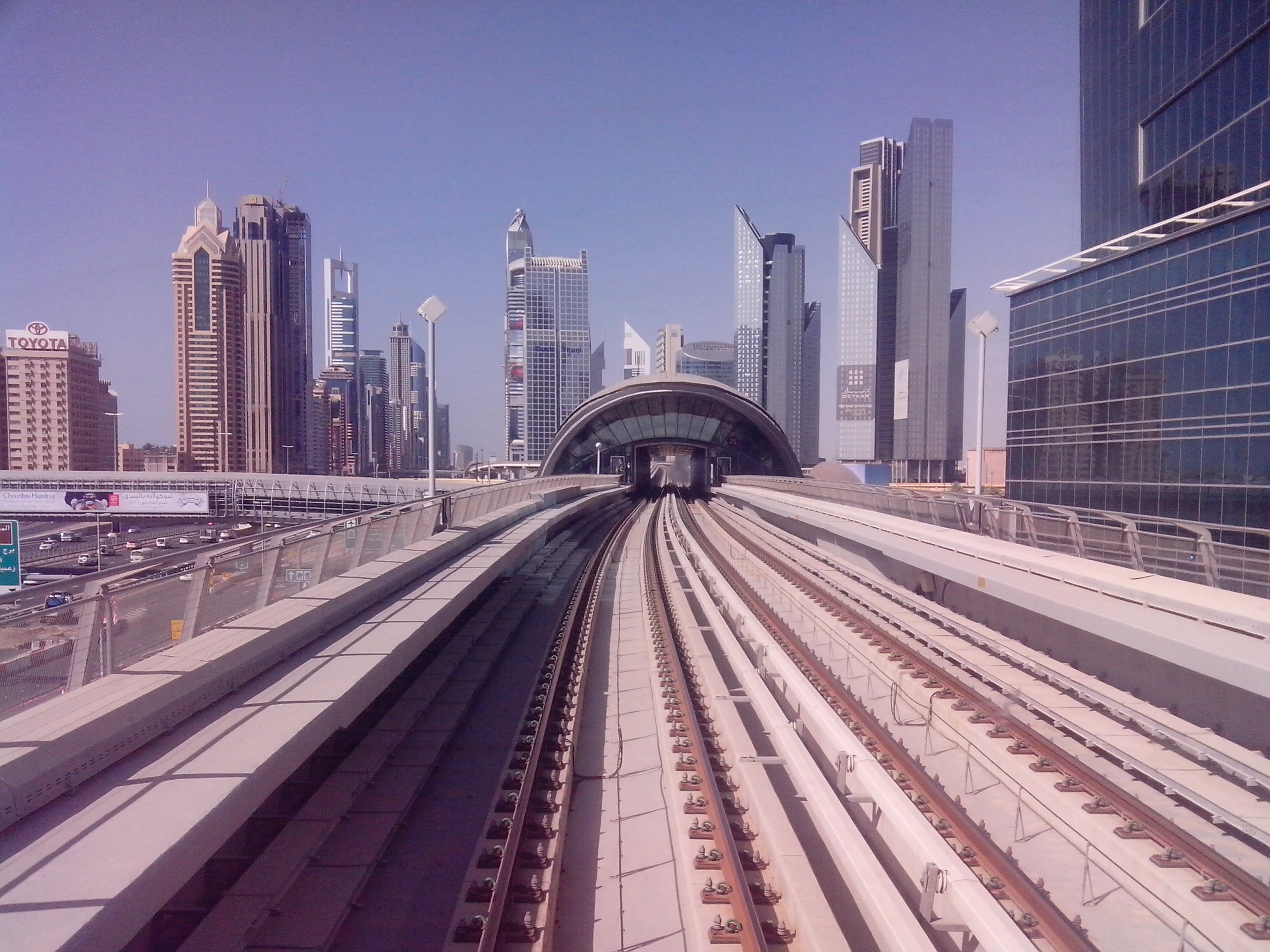 Dubai Metro